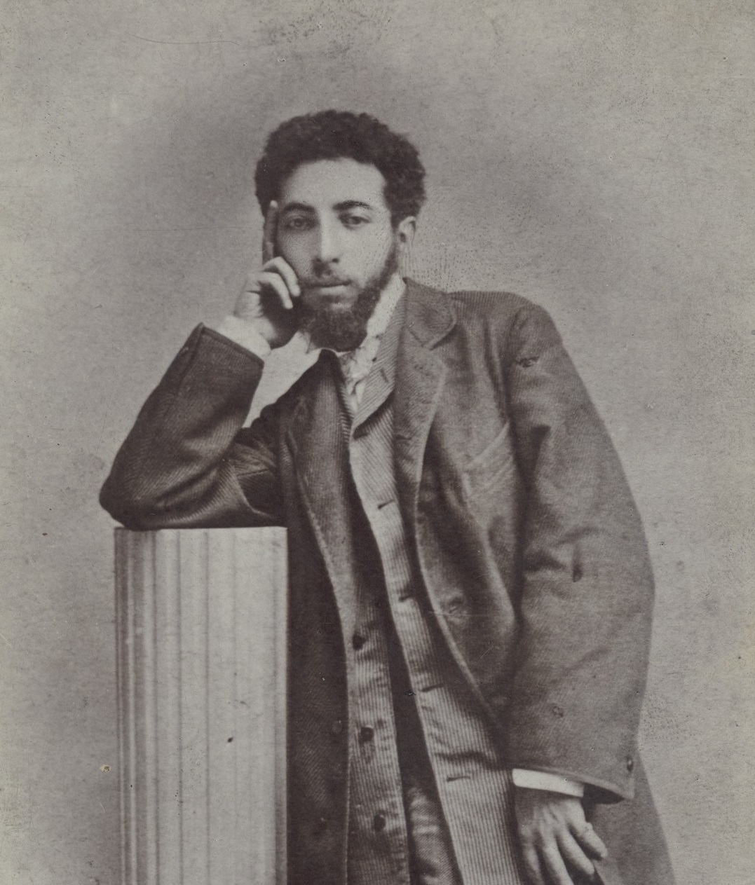 Pictures from the Schwadron collection of the National Library of Israel Maurycy Gottlieb מאוריצי גוטליב